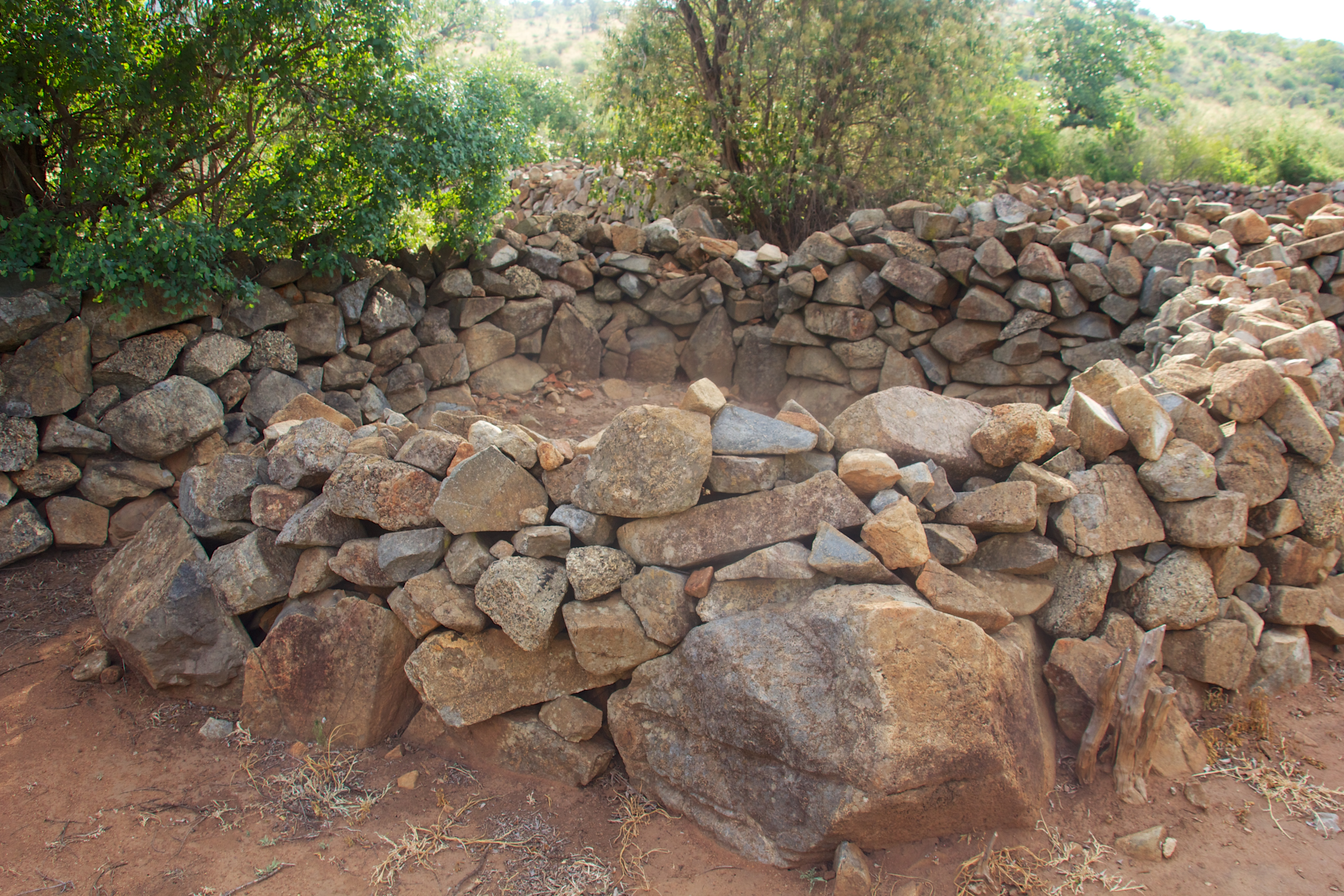 Iron age settlement at Pilanesberg National Park.